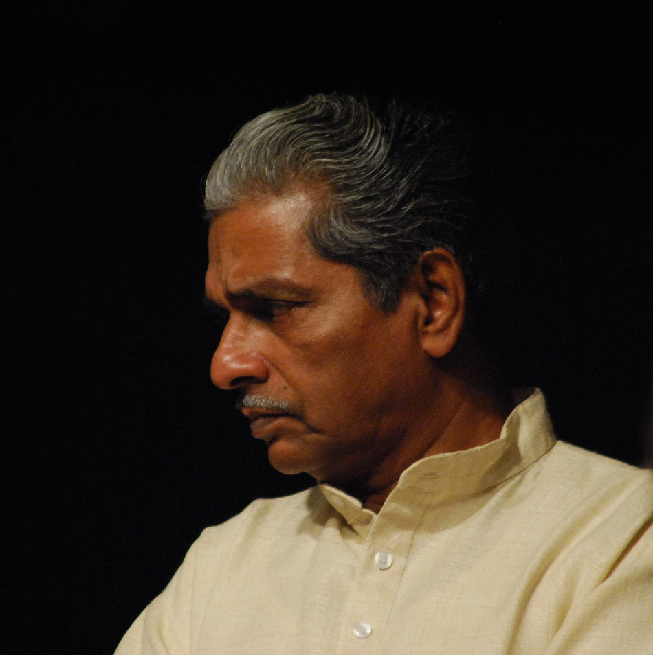 Dr. K.G. Poulose